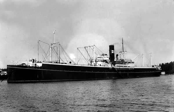 Whaling factory Pelagos, ex. Athenic (1901)